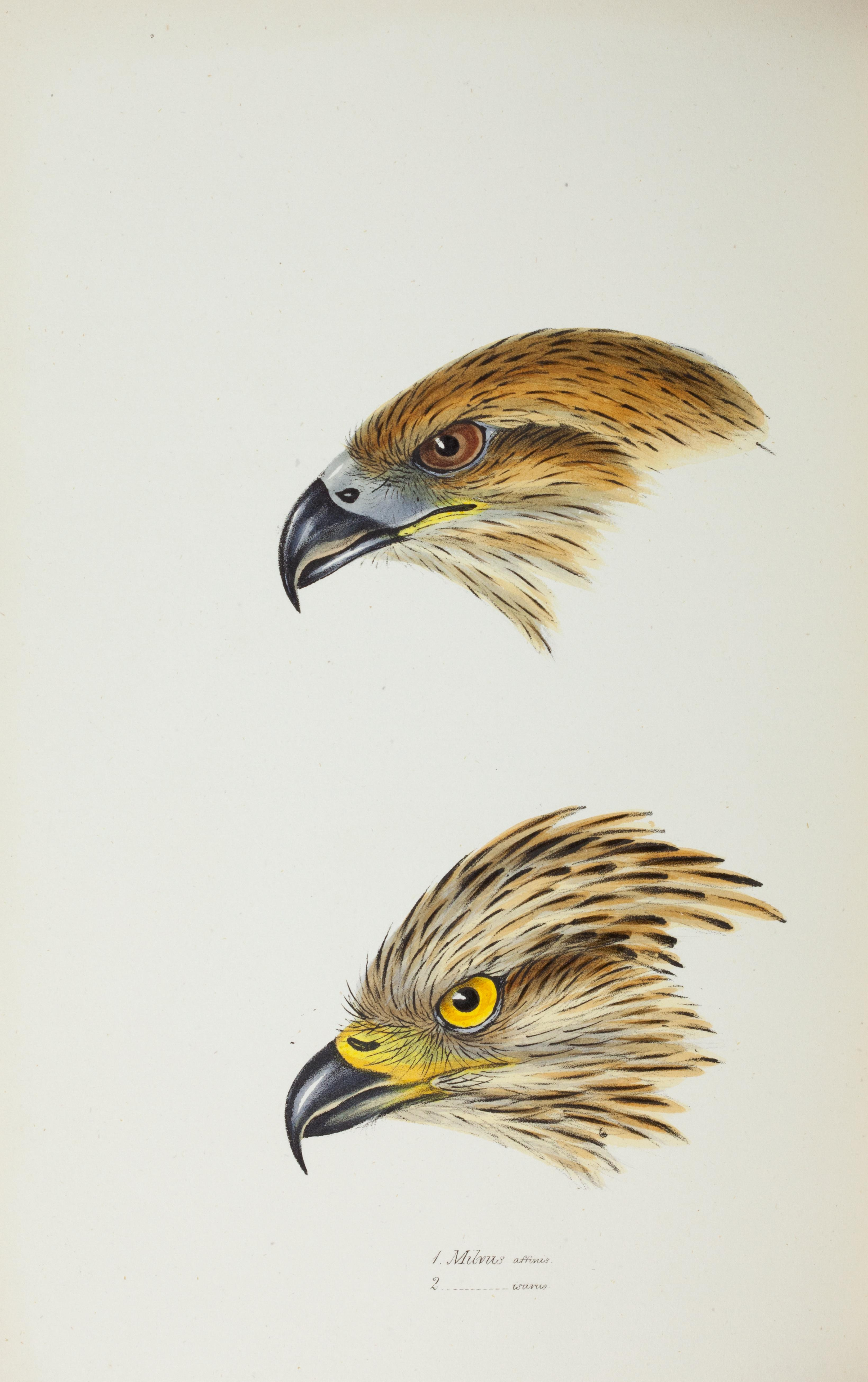 A synopsis of the birds of Australia, and the adjacent Islands /